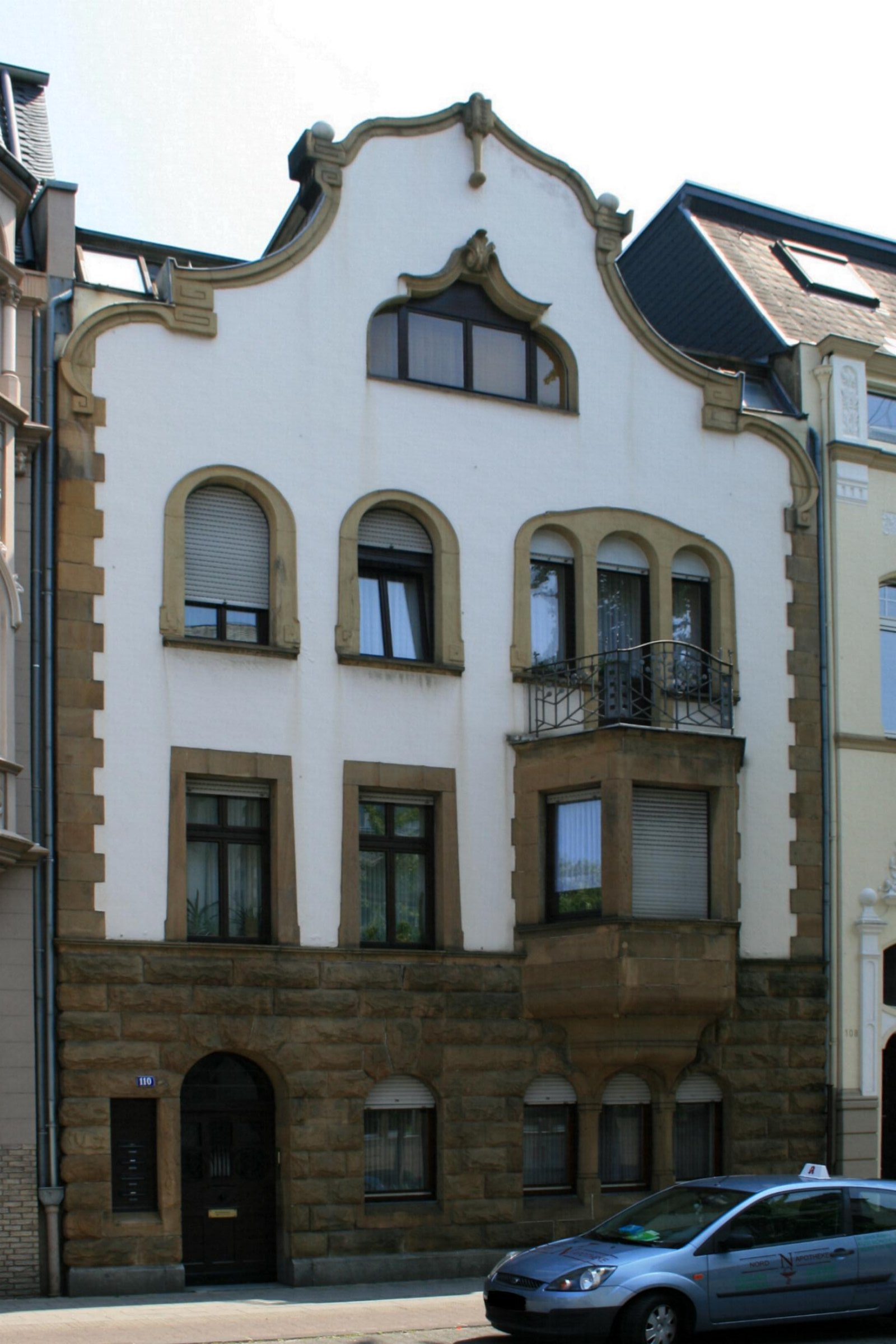 Cultural heritage monument No. B 088 in Mönchengladbach